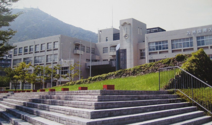 Kyushu International University